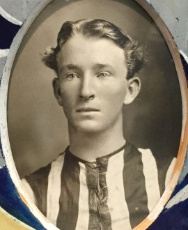 Photograph of Paddy Gilchrist in 1910